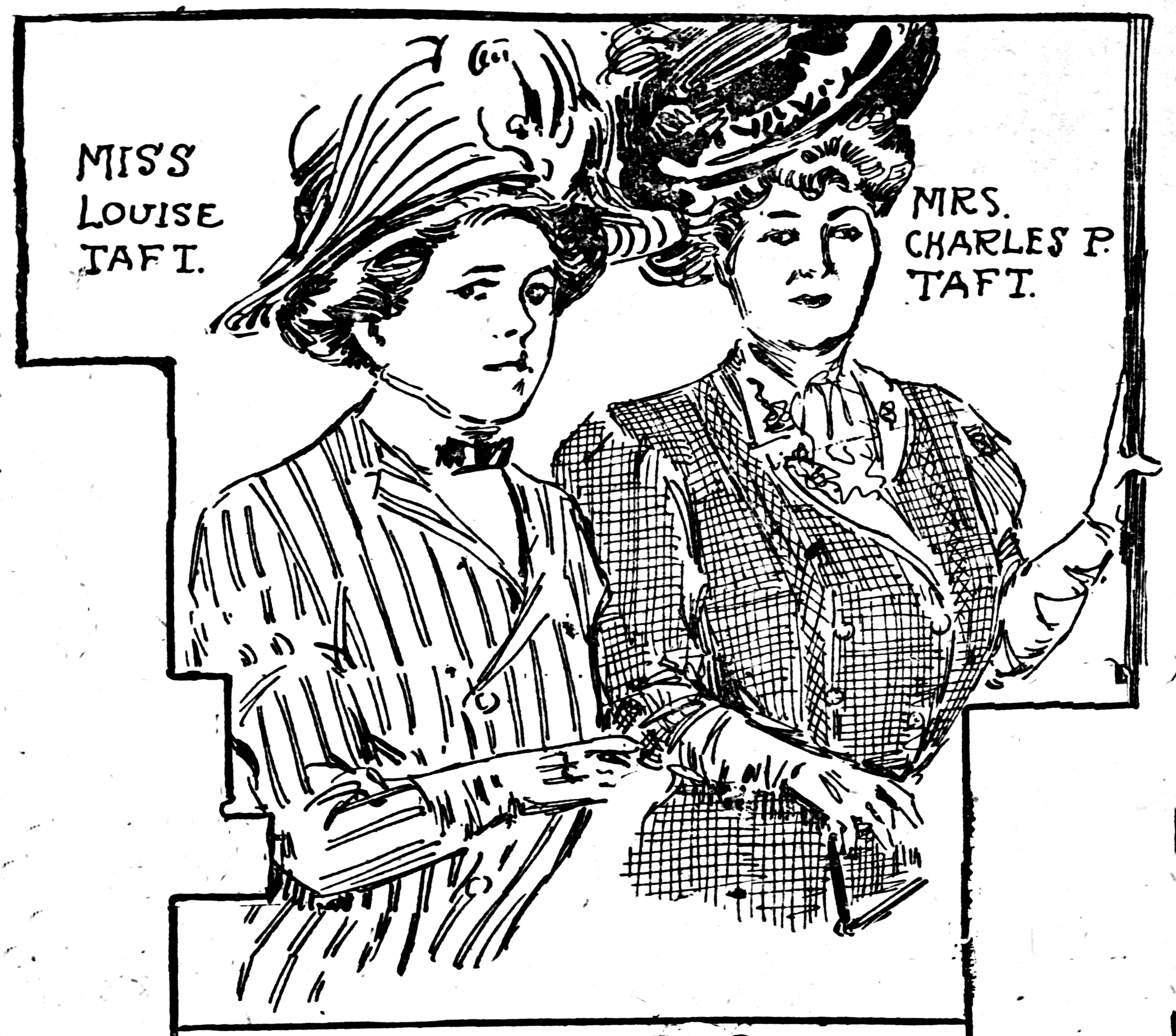 Marguerite Martyn drawing of Mrs. Charles Phelps Taft and daughter Louise, published in the St. Louis Post-Dispatch, June 14, 1908